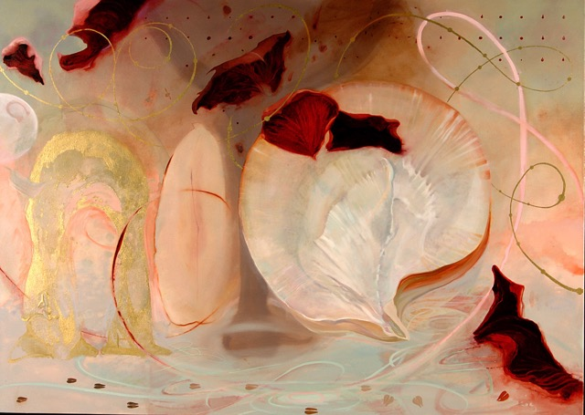 Ciel Bergman, Her compassion, 2004 o/c 60x84” private collection Photographer: James Hart